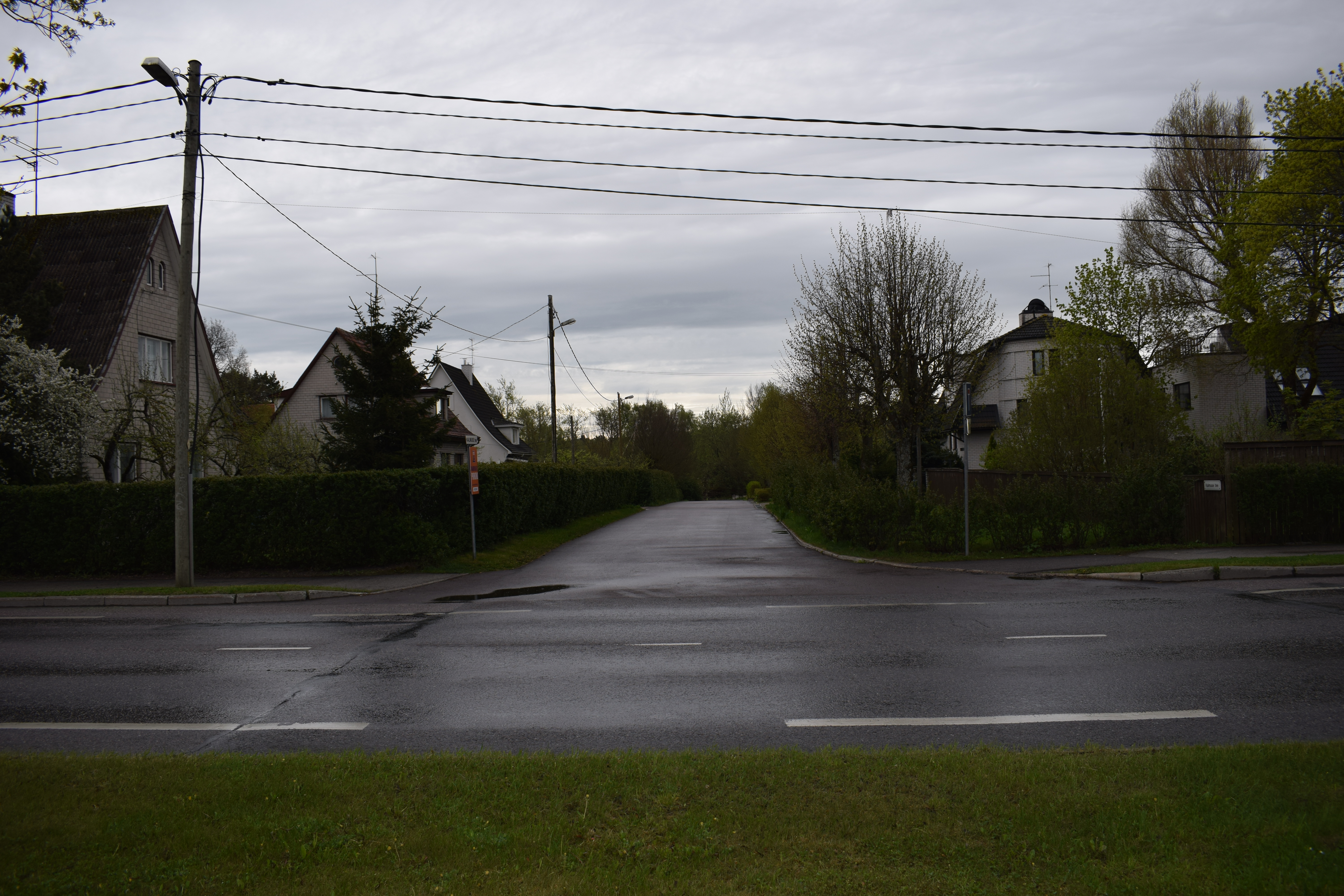 Kalmuse tee